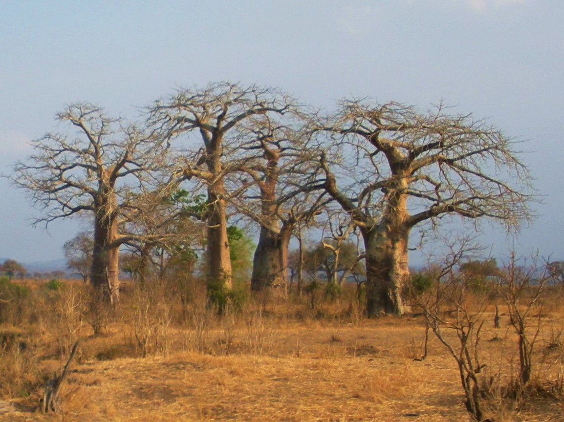 A group of baobab trees in the Mikumi National Park, Tanzania. This photo has been taken by Prof. Chen Hualin.